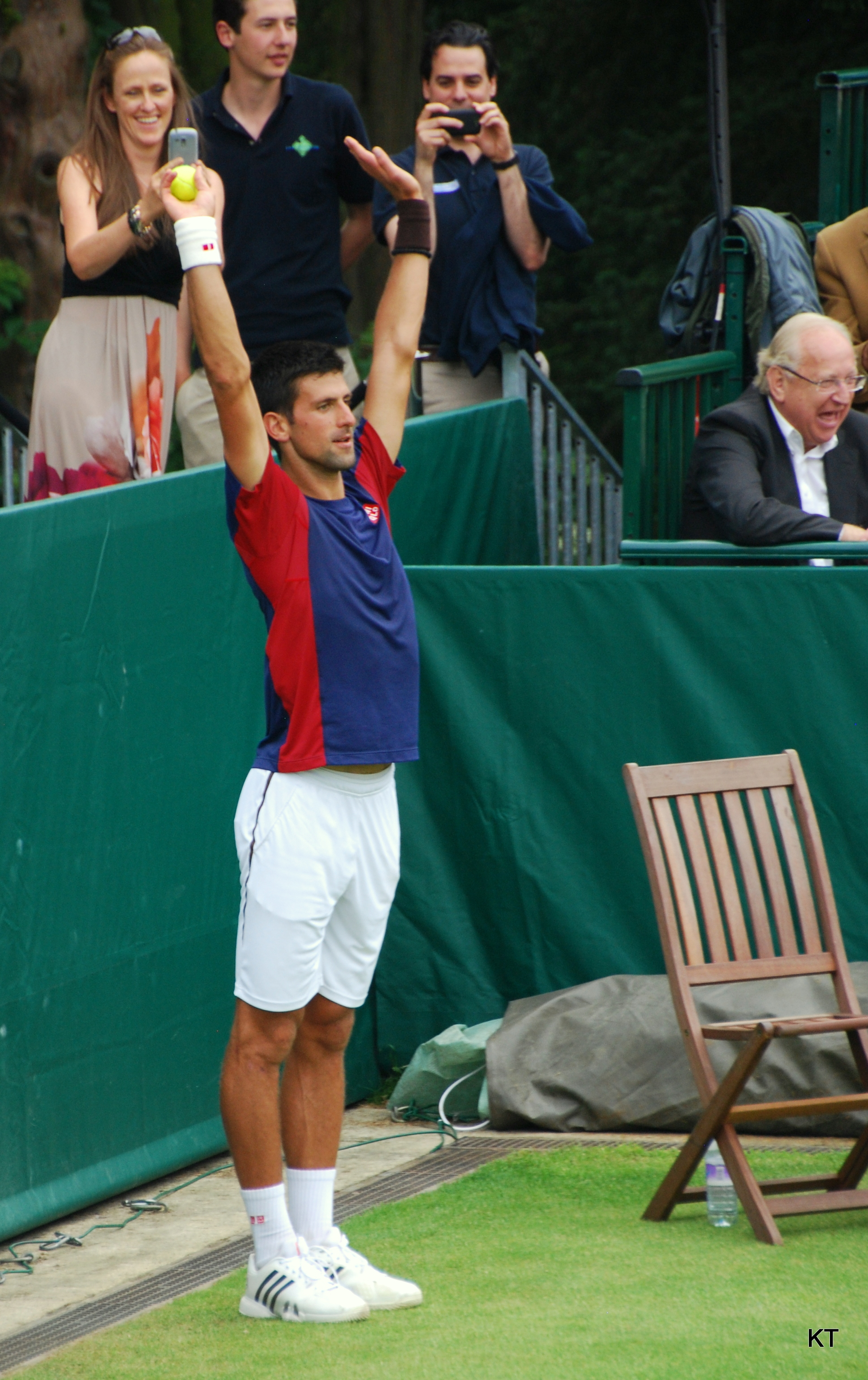 Djokovic the ballgirl